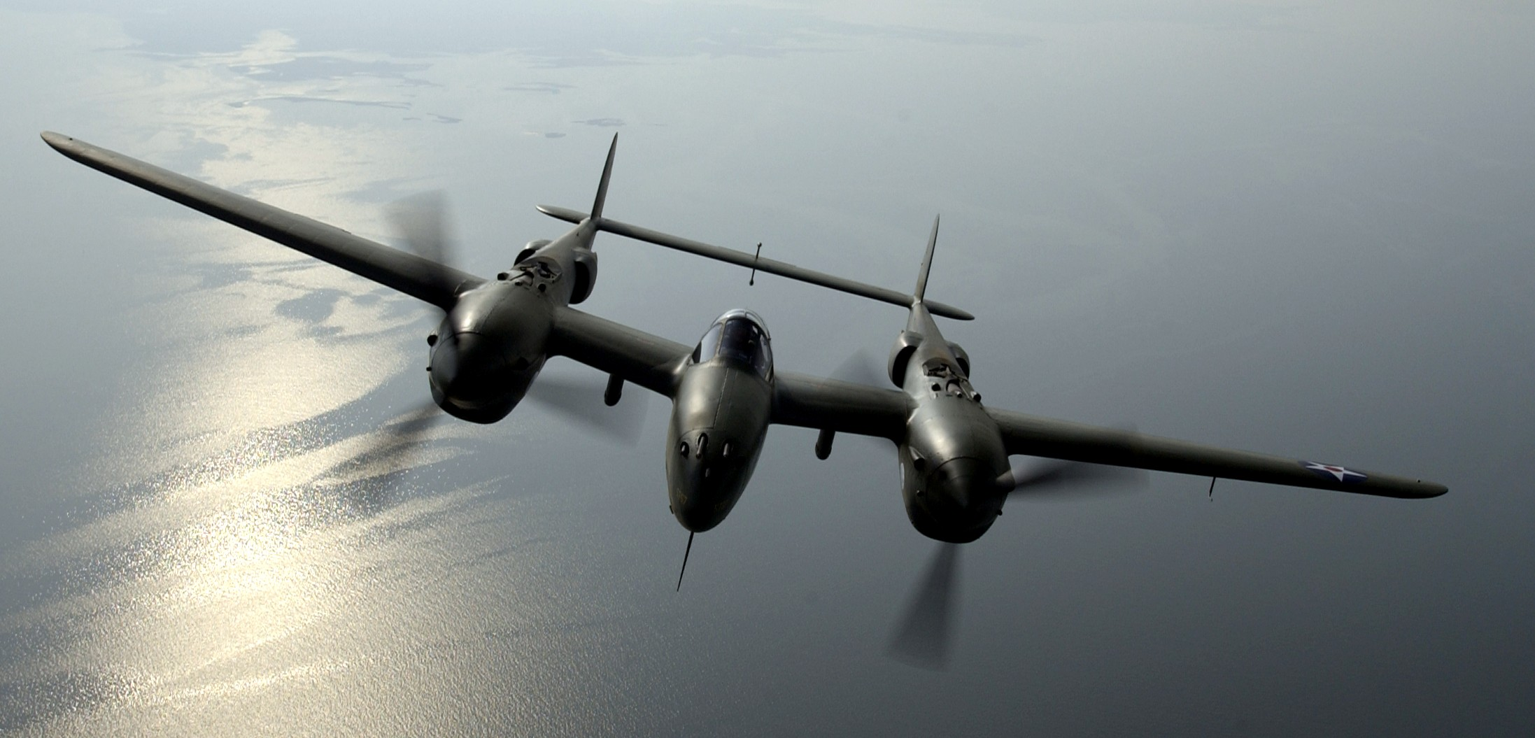 OVER VIRGINIA -- Steve Hinton flies "Glacier Girl," a P-38 Lightning dug out from 268 feet of ice in eastern Greenland in 1992. The aircraft was part of a heritage flight during an air show at Langley Air Force Base, Va., on May 21. (U.S. Air Force photo by Tech. Sgt. Ben Bloker)